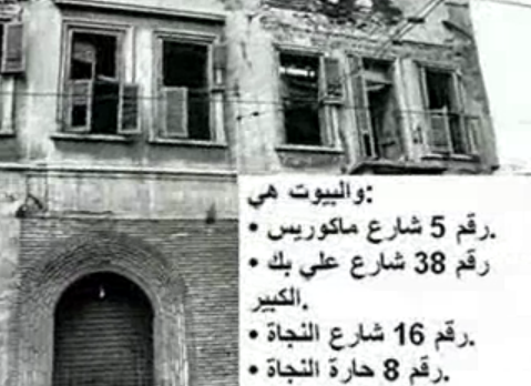 Riya & Sakina's house and the names of the roads in the murders scene